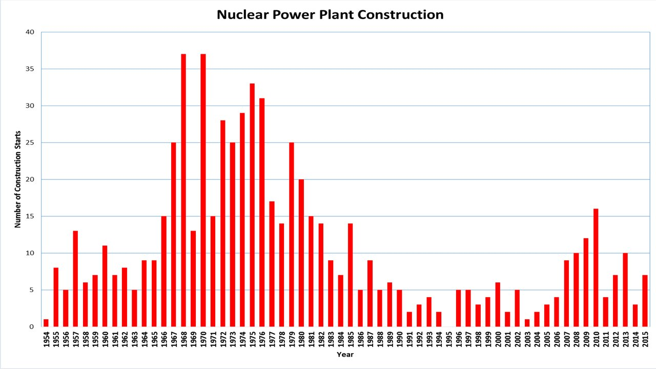 A bar graph, produced in Microsoft Excel, that shows the number of nuclear reactor constructions started by year. Intended to illustrate the concept of the 'nuclear renaissance', but may be useful in other related articles. Sources: and